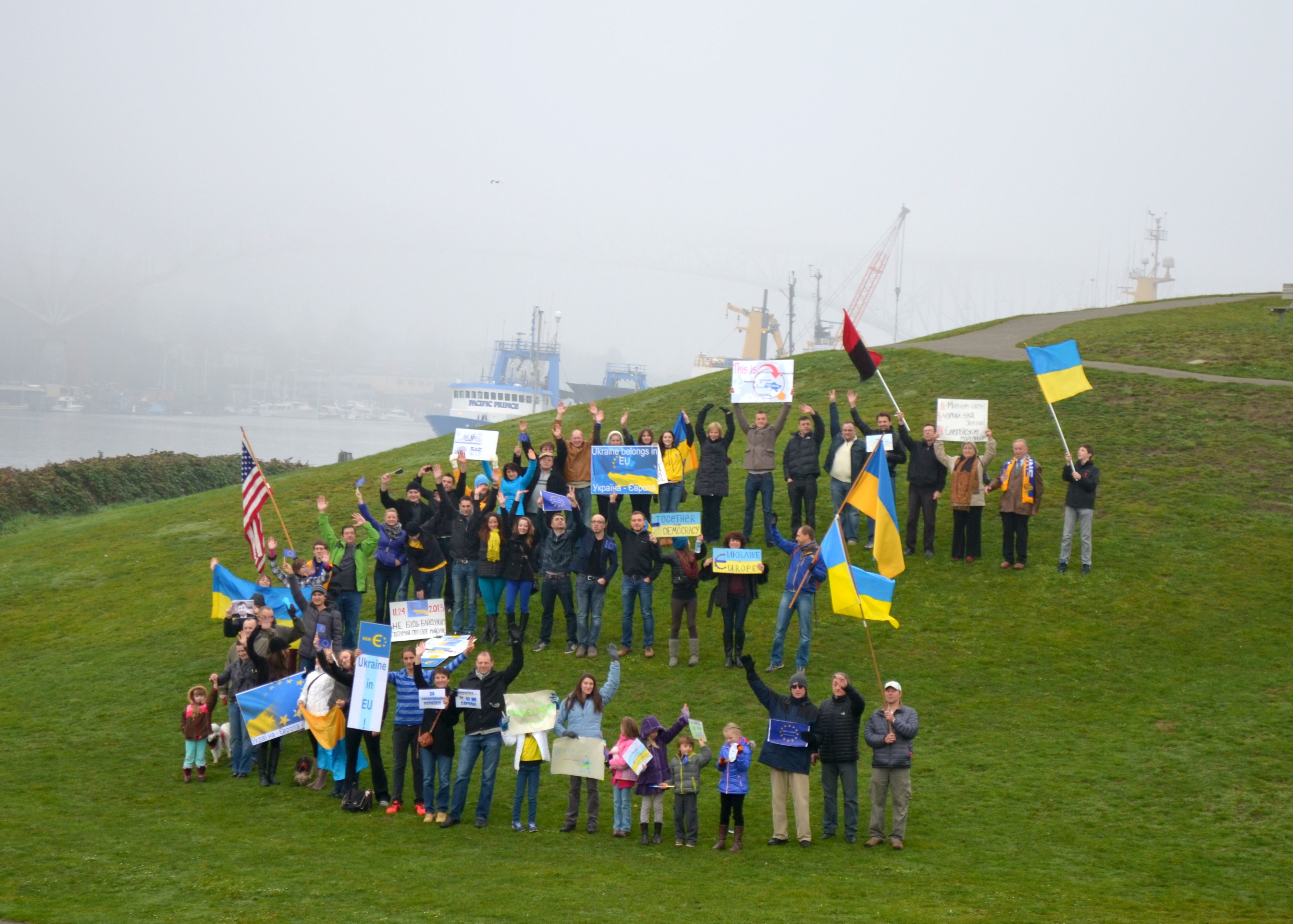 EuroMaidаn in Seattle-ЄвроМайдан в Сіетлі